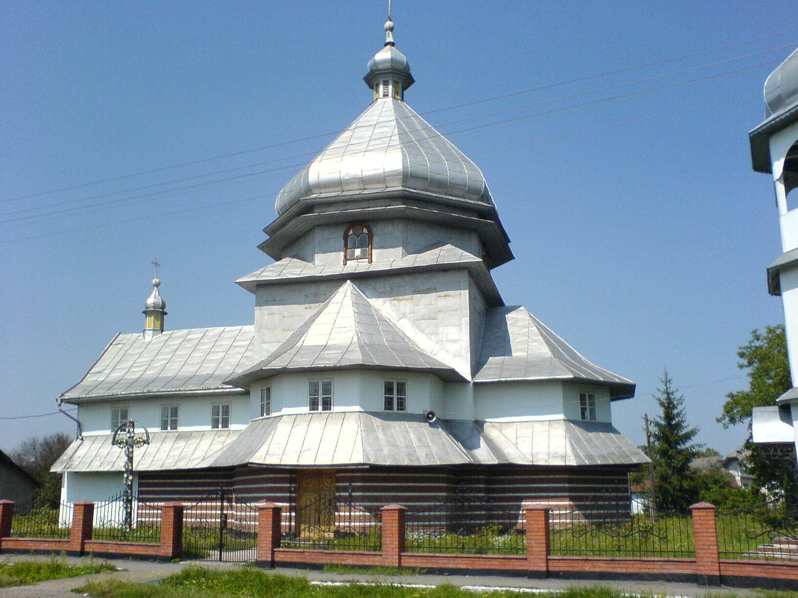 Greek Catholic Church in Jezupol